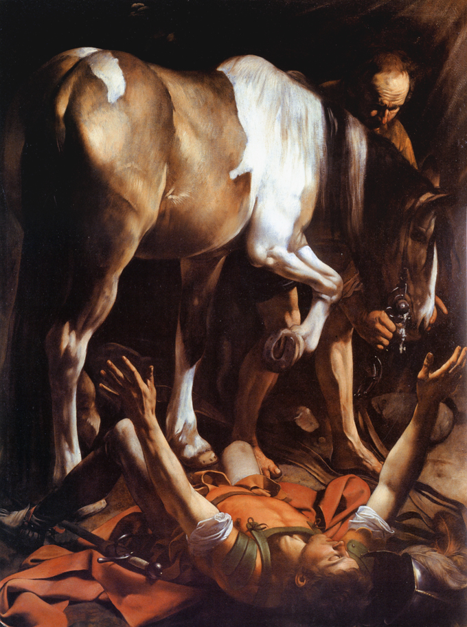 The Conversion on the Way to Damascus